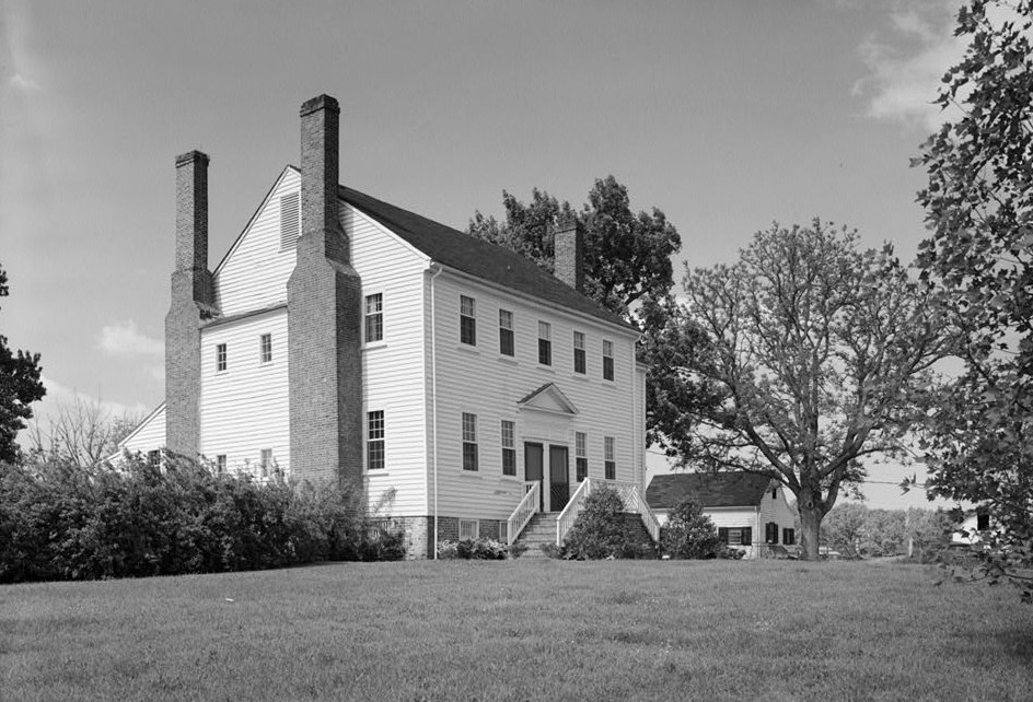 Green Springs (Main House), Near Routes 617 & 15, Trevilians vicinity (Louisa County, Virginia) cropped This file comes from the Historic American Buildings Survey (HABS), Historic American Engineering Record (HAER) or Historic American Landscapes Survey (HALS). These are programs of the National Park Service established for the purpose of documenting historic places. Records consist of measured drawings, archival photographs, and written reports. When reusing please credit: Library of Congress, Prints & Photographs Division, VA,55-TREV.V,5-2 This tag does not indicate the copyright status of the attached work. A normal copyright tag is still required. See Commons:Licensing. This work is in the public domain in the United States because it is a work prepared by an officer or employee of the United States Government as part of that person’s official duties under the terms of Title 17, Chapter 1, Section 105 of the US Code. Note: This only applies to original works of the Federal Government and not to the work of any individual U.S. state, territory, commonwealth, county, municipality, or any other subdivision. This template also does not apply to postage stamp designs published by the United States Postal Service since 1978. (See § 313.6(C)(1) of Compendium of U.S. Copyright Office Practices). It also does not apply to certain US coins; see The US Mint Terms of Use. This file has been identified as being free of known restrictions under copyright law, including all related and neighboring rights.